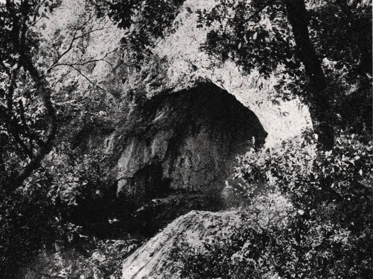 Entrance of Pilisszántói Cave.